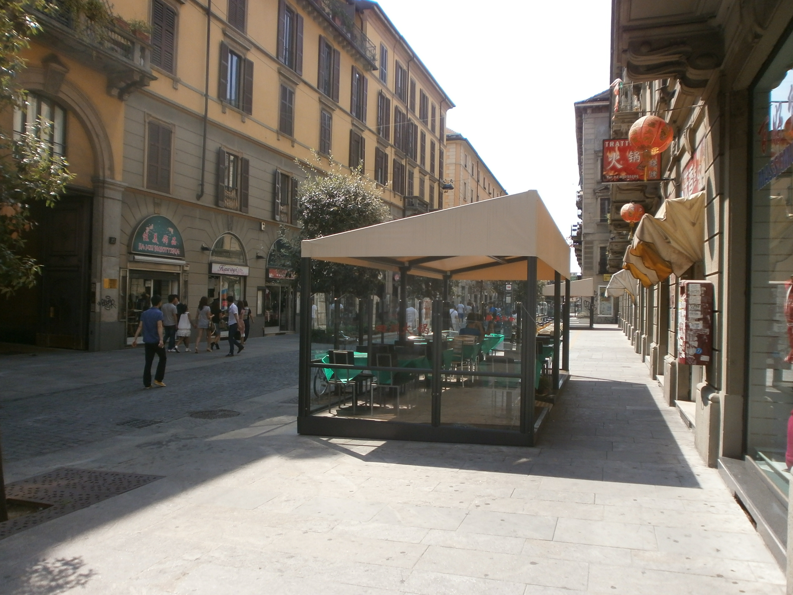 via paolo sarpi - chinatown milano 02